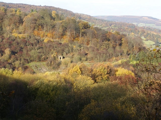 Clough Wood near Darley Bridge Looking north across a steep valley from Cambridge Wood to Clough Wood.